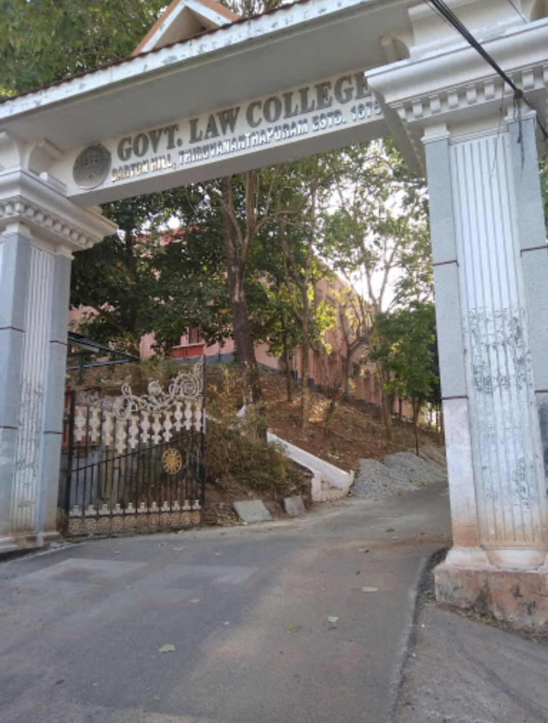 Entrance to the Government Law College,Thiruvananthapuram